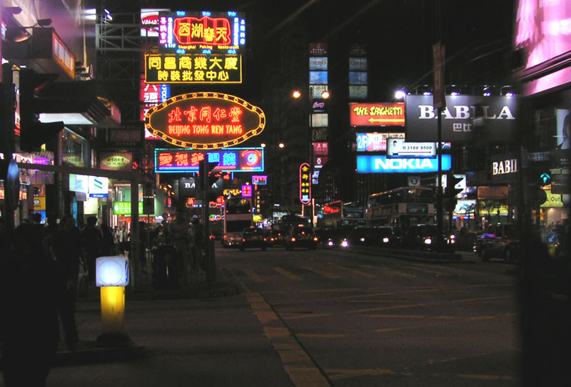 Nathan Road at night